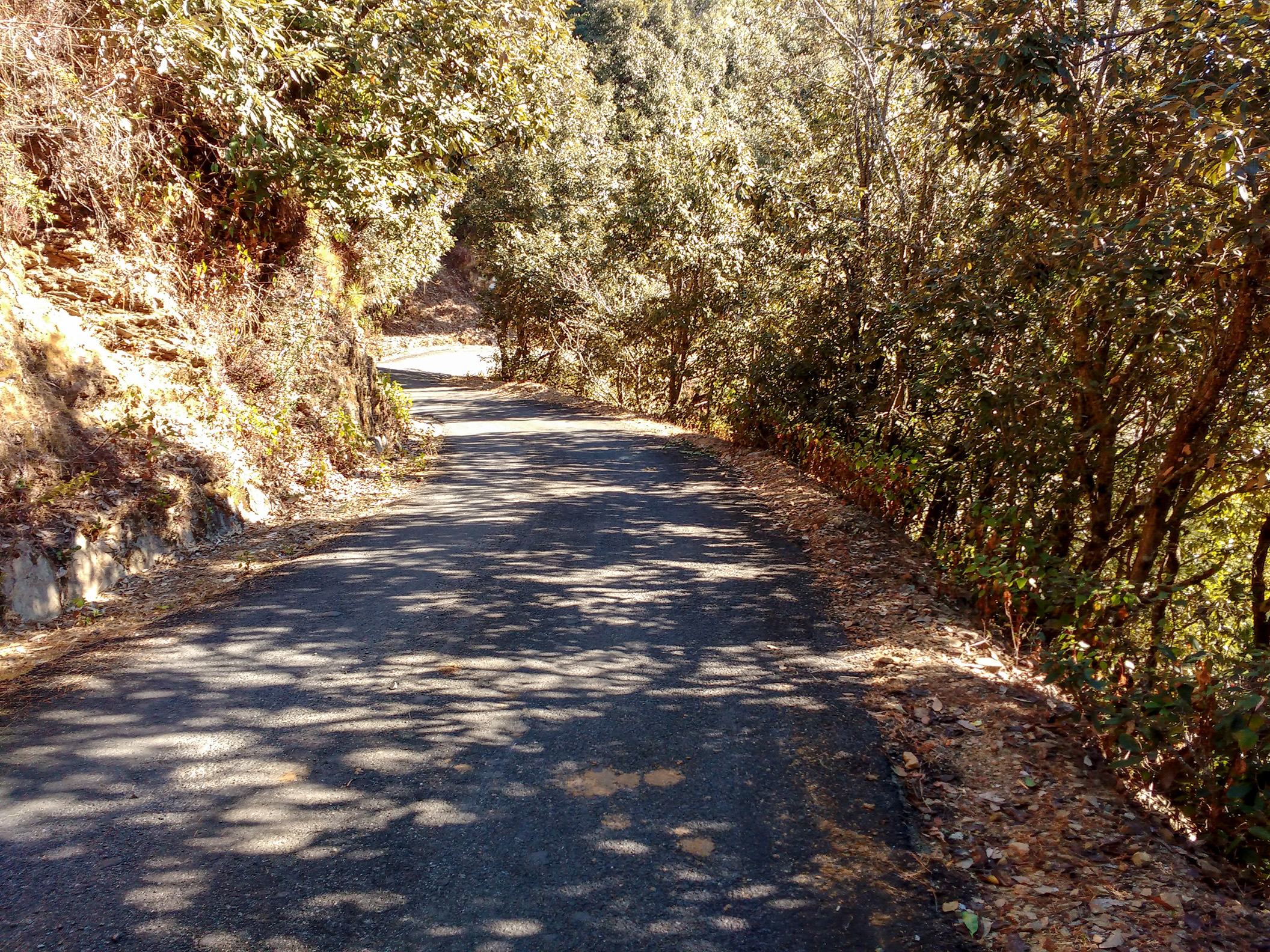 Road to Abott Mount Lohaghat